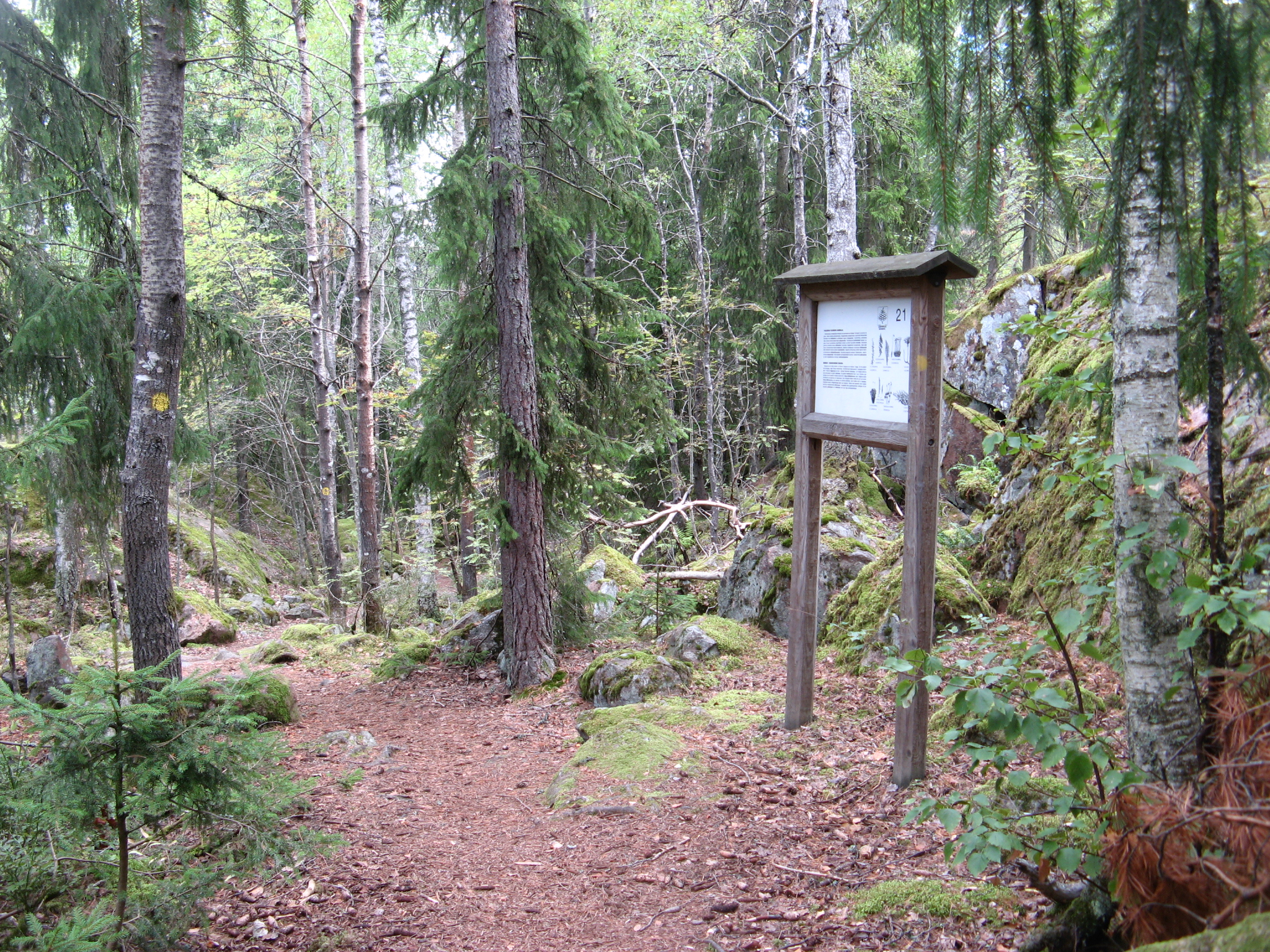 Marked trail in the spruce wood of the nature reserve in Katariina.